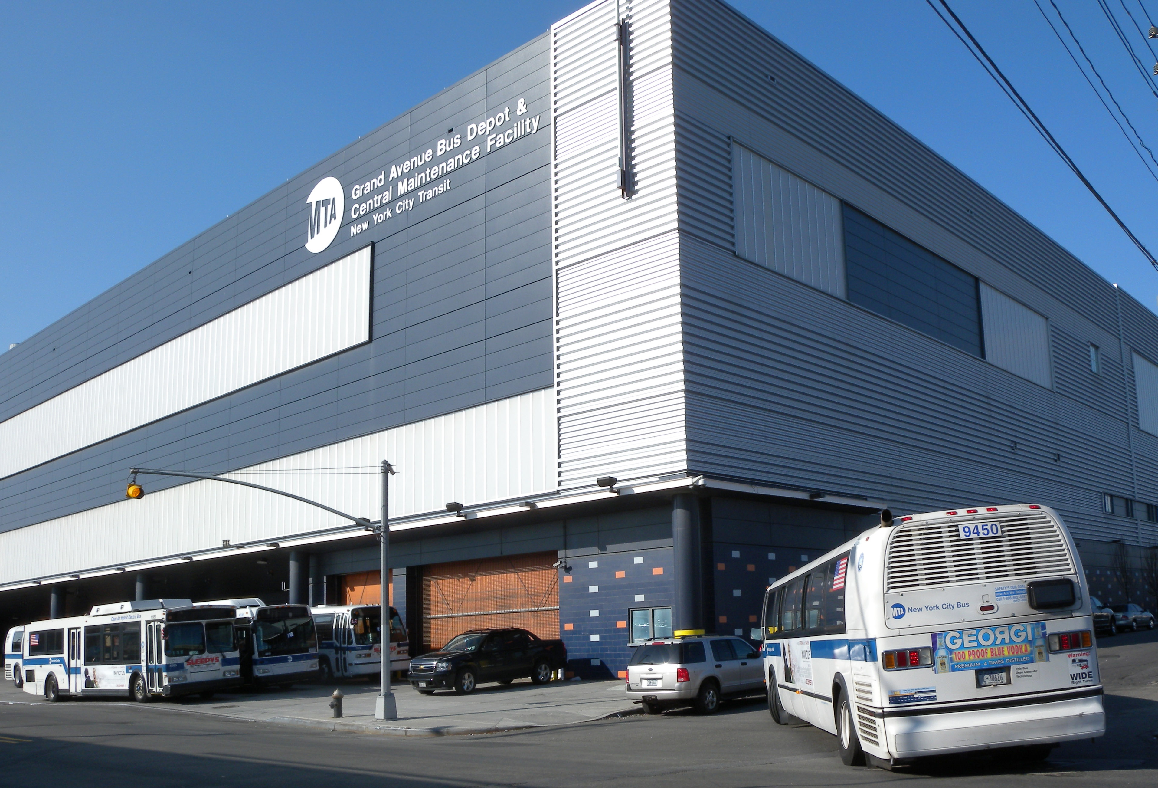 Looking northwest across Flushing Avenue at Grand Avenue Bus Depot & Central Maintenance Facility on a sunny midday as a bus approaches.